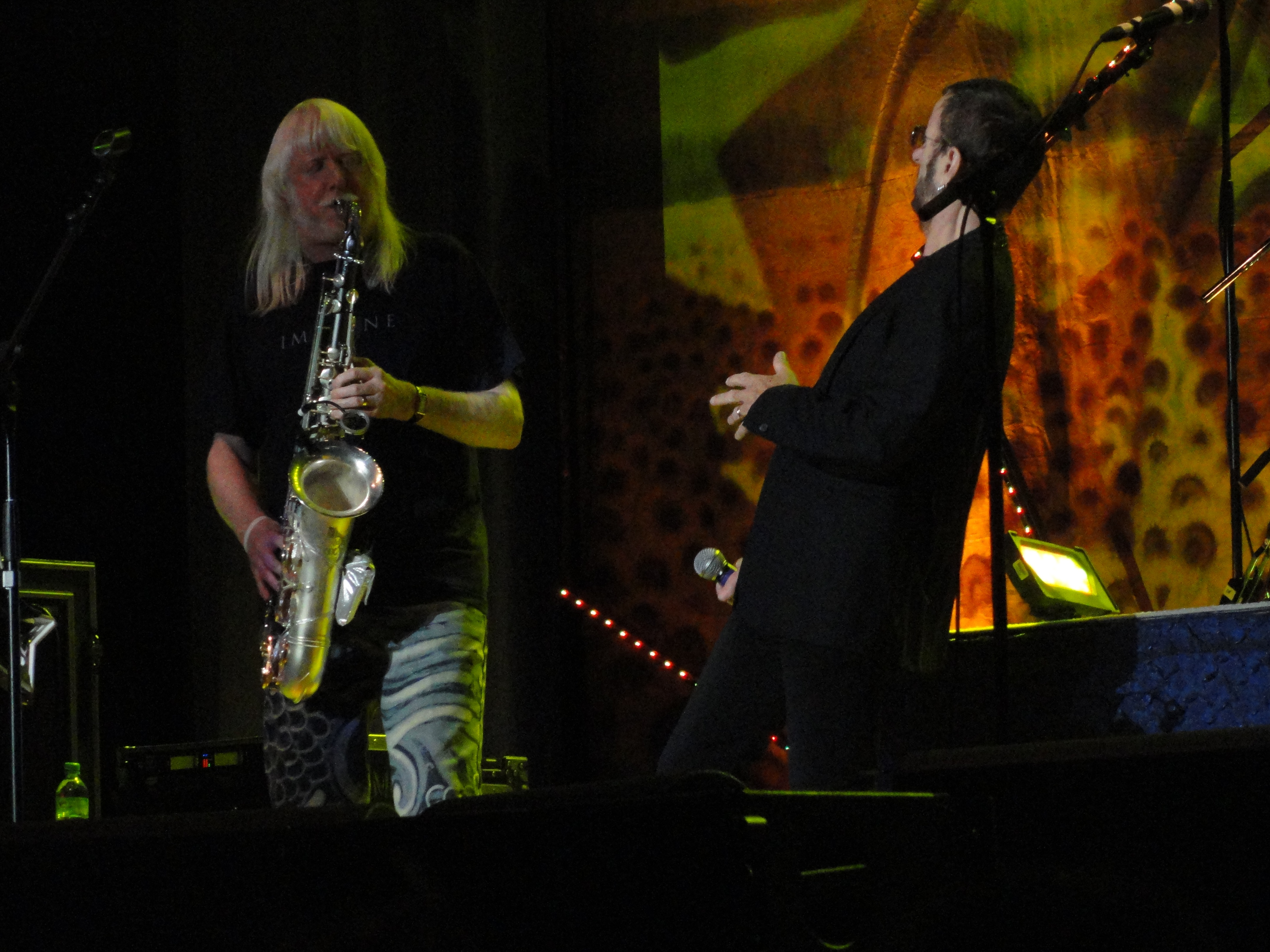 Edgar Winter (left) and Ringo Starr (right) in concert.